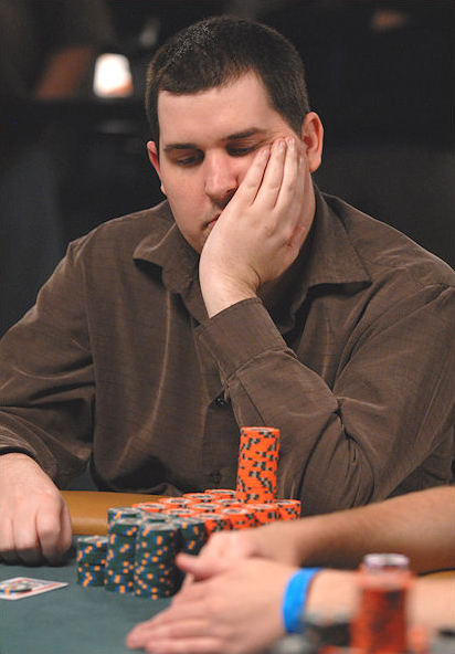 Scott Montgomery playing at the 2008 World Series of Poker